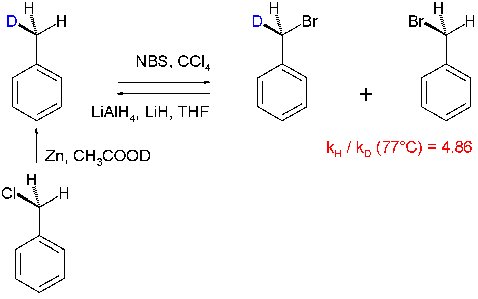 Kinetic Isotope Effect Halogenation